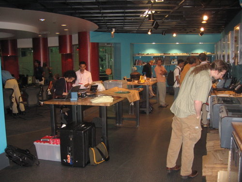 people in the lab